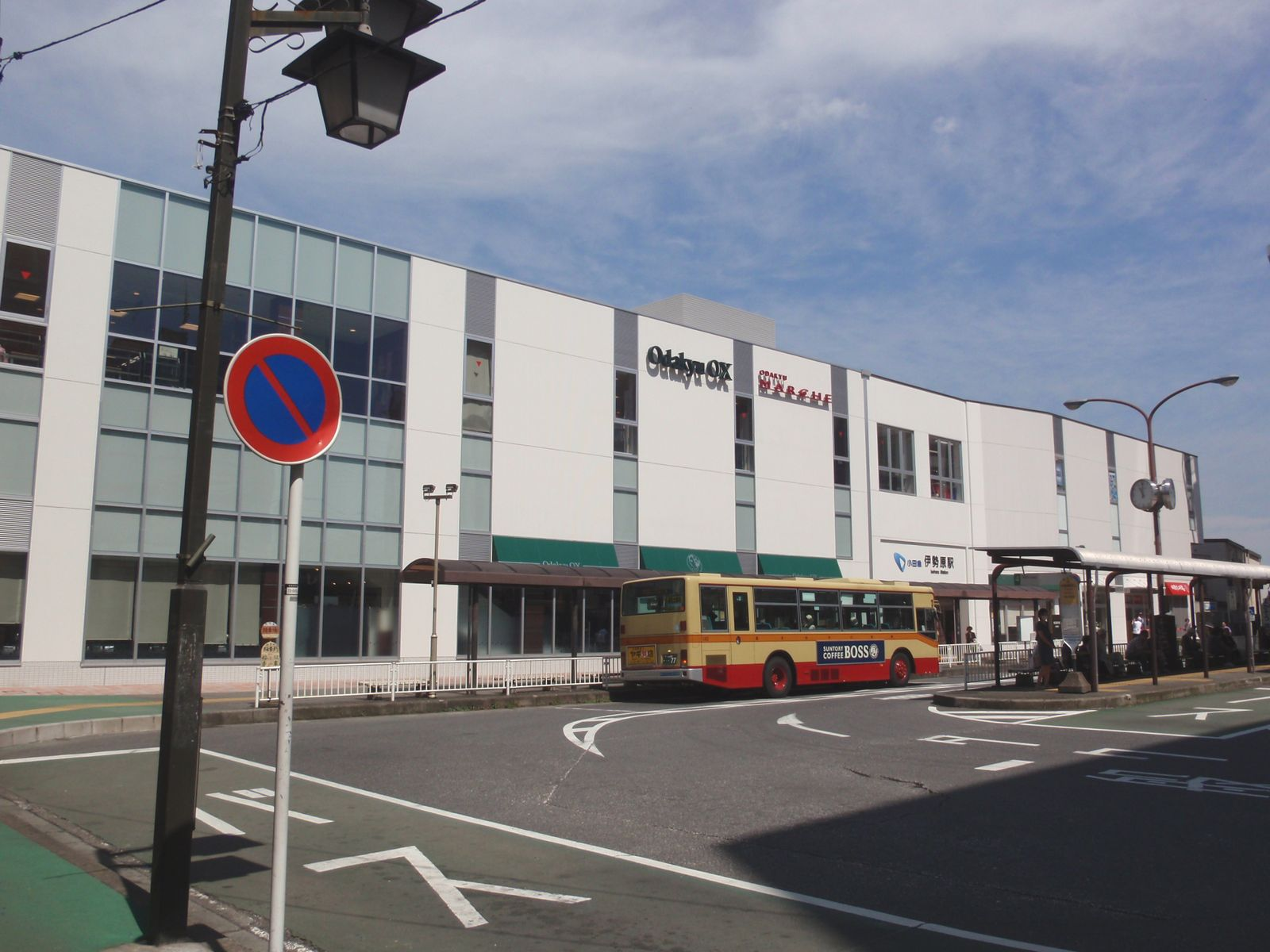 Isehara Sta. south entrance